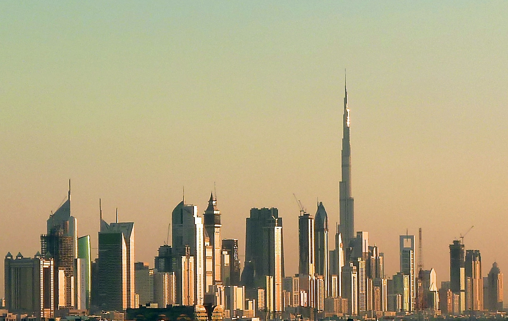 Dubai